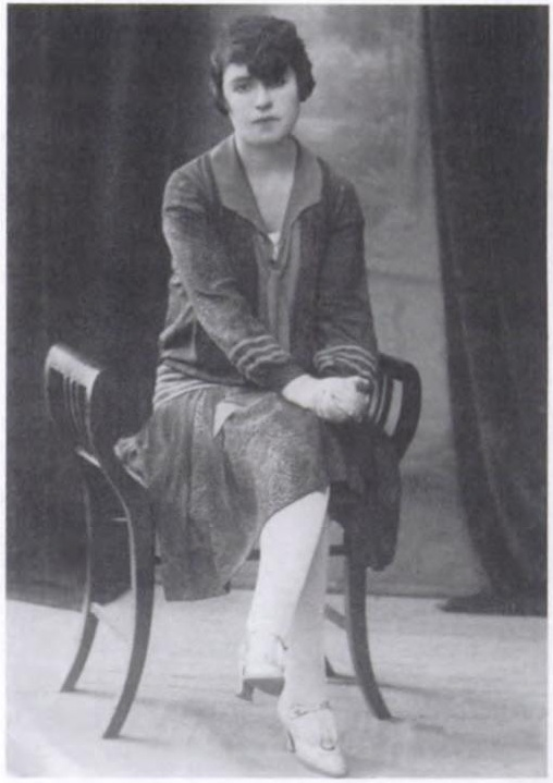 Portrait of young Sabiha Sertel